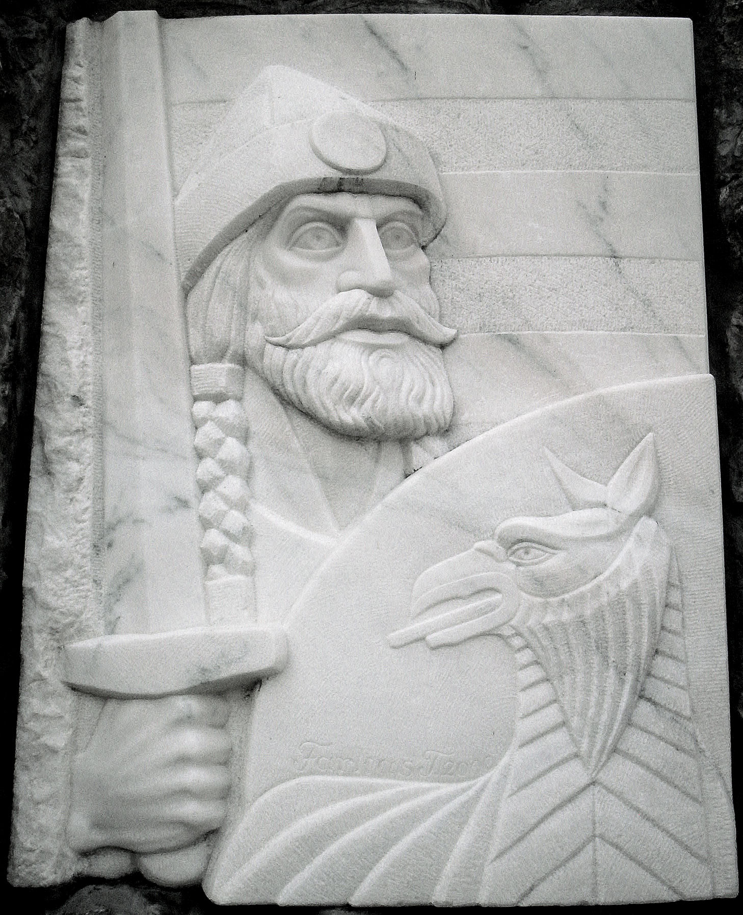 Relief of Fajsz, Grand Prince of the Hungarians, in the town of Fajsz, Hungary